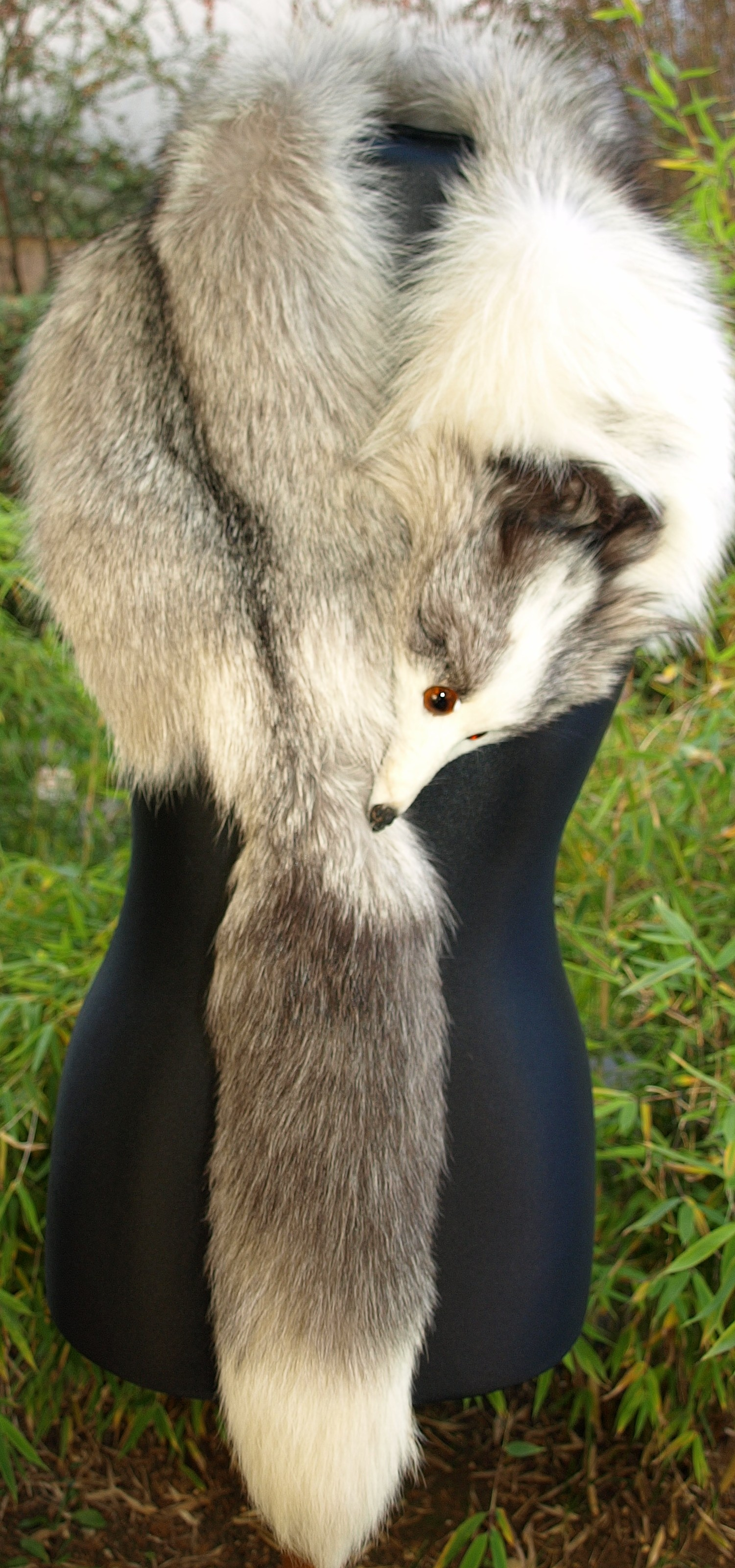 Platin fox fur choker